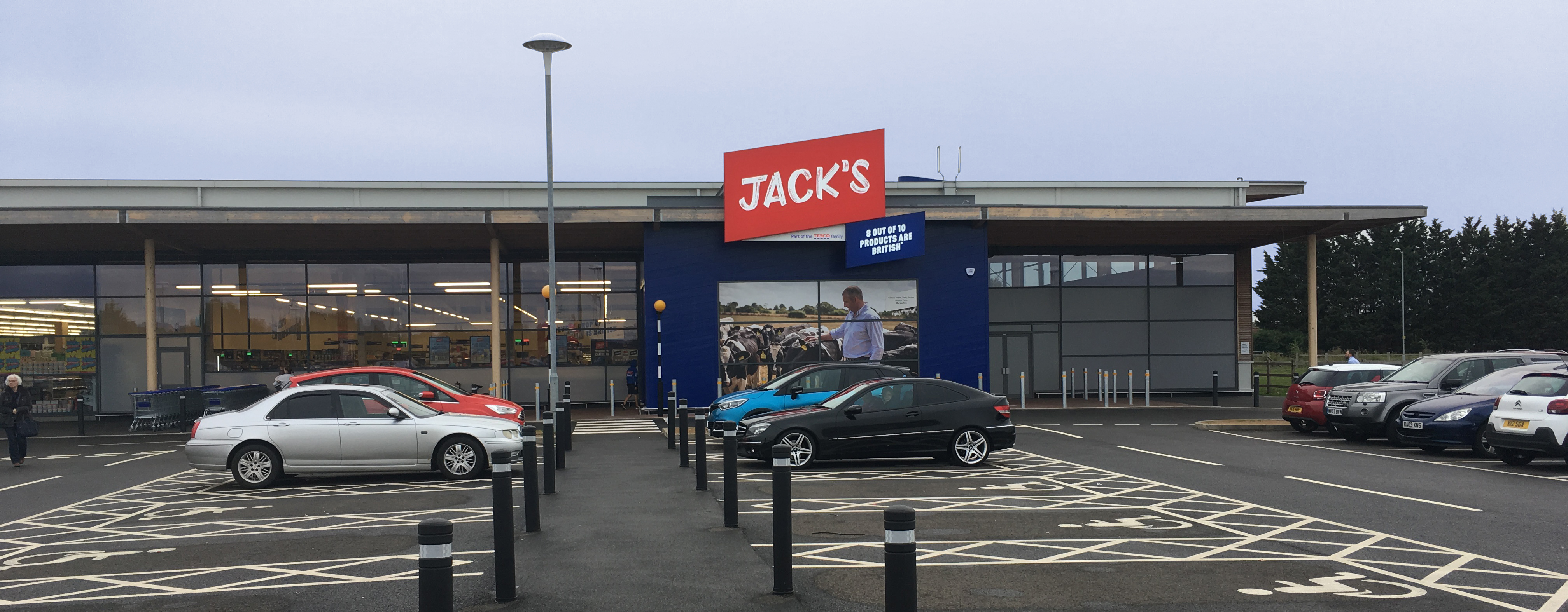 Exterior of Jack's supermarket in Chatteris, Cambridgeshire. Jack's is a budget supermarket brand owned by Tesco, designed to compete with lower-priced rivals. The Chatteris was the first store using this brand to open in September 2018 and hosted the press launch.